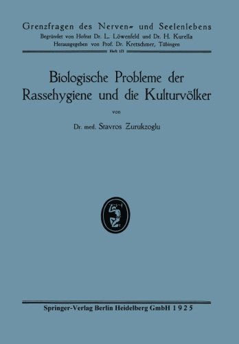 Stavros Zurukzoglu Book